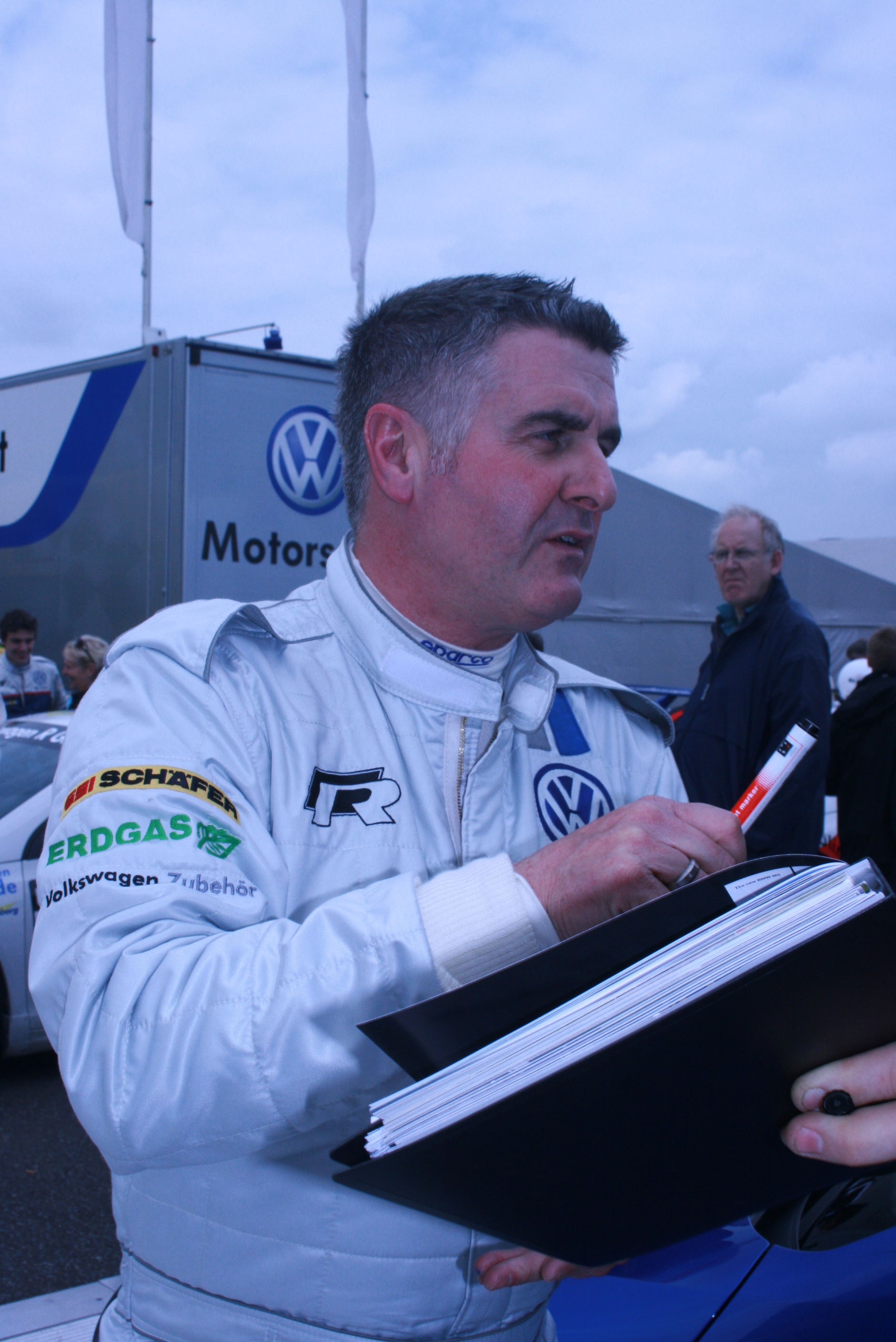 Former Formula 1 driver Martin Donnelly signs autographs at Brands Hatch after qualifying in the VW Scirocco R-Cup